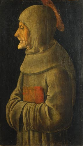 Bernardino of Siena Giorgio Schiavone, Juraj Culinovic (Scardona around 1436 - Sebenico 1504) Saint Bernardino of Siena Wood - 37,6 x 25,5 cm Collection G.G. Poldi Pezzoli Inv. : 1593